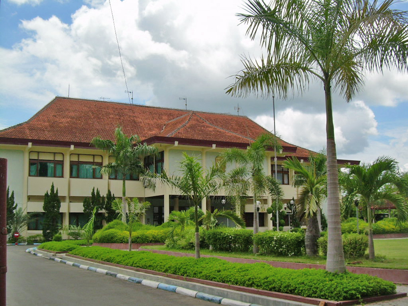 Bojonegoro Resident Office in Bojonegoro, East Java, Indonesia. Taken by me. (Arifhidayat 13:25, 6 February 2007 (UTC))